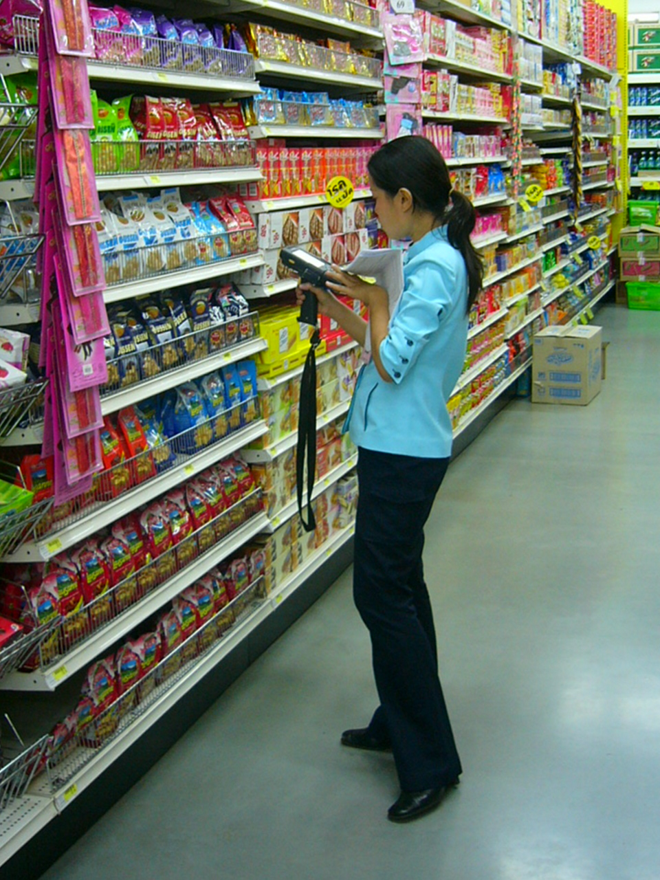 Female clerk doing inventory work using a handheld computer in a Tesco Lotus supermarket in Sakon Nakhon, Thailand.